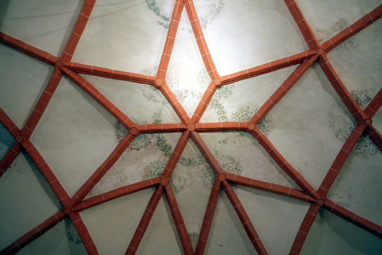 Berlin, Heilig-Geist-Spital, arch